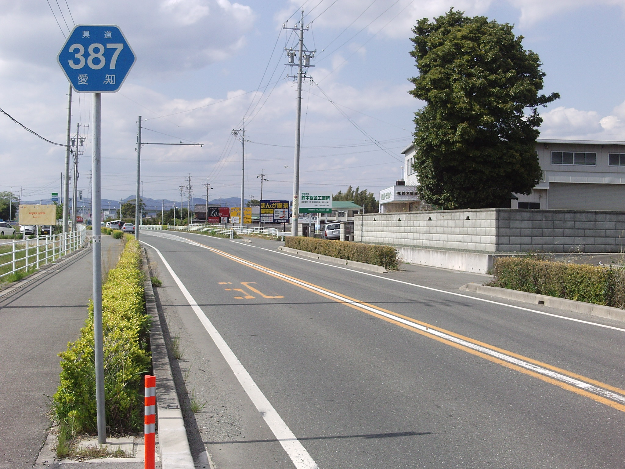 Aichi prefectural road No.387 in Kawasakicho, Toyohashi, Aichi.